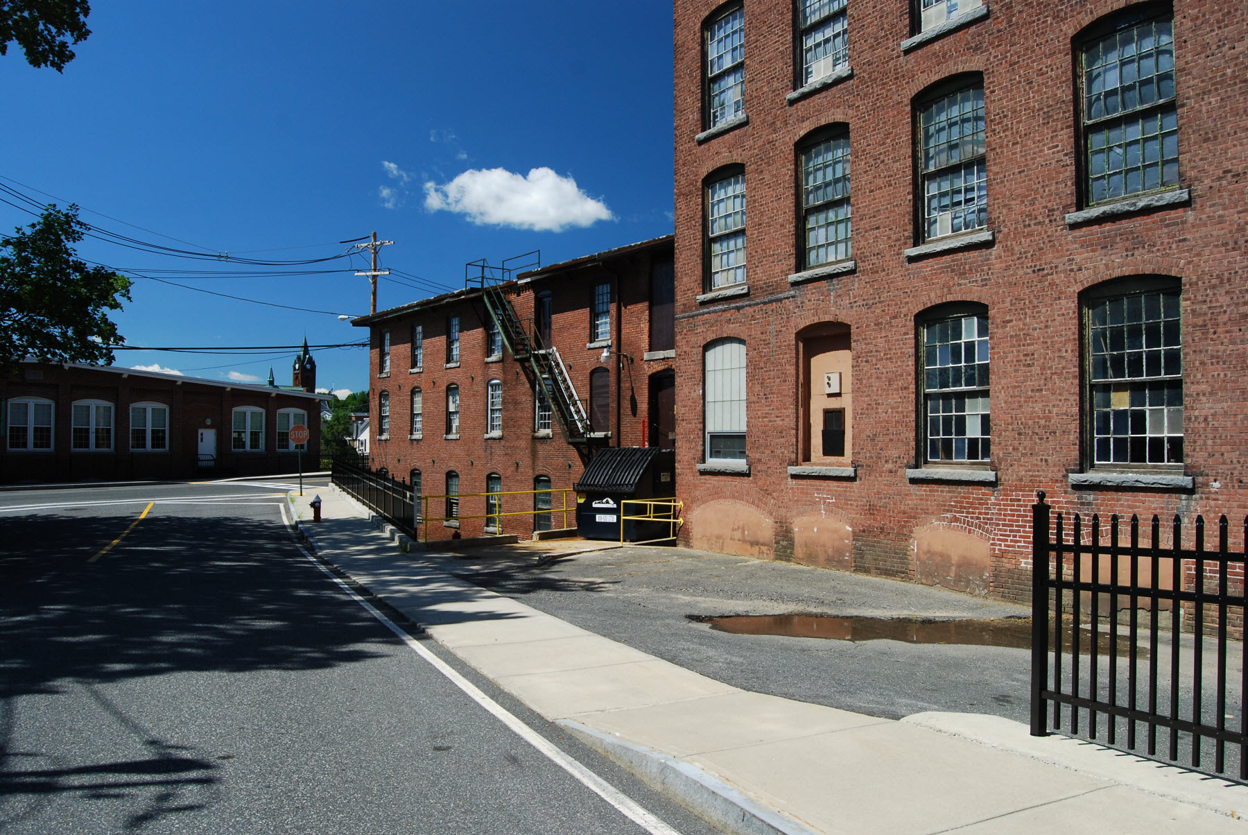 Ware Mills Historic District, Ware, Massachusetts